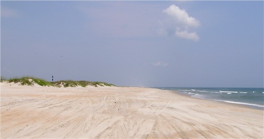 OBX beach photo. (OBX is short for Outer Banks.)